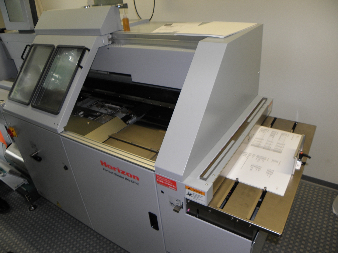 Digital Printing presses